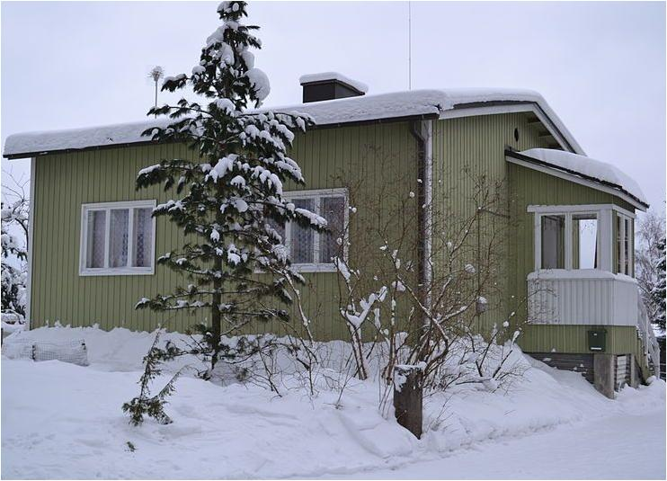 A house on the address Kypärätie 11 in Kypärämäki, Jyväskylä.